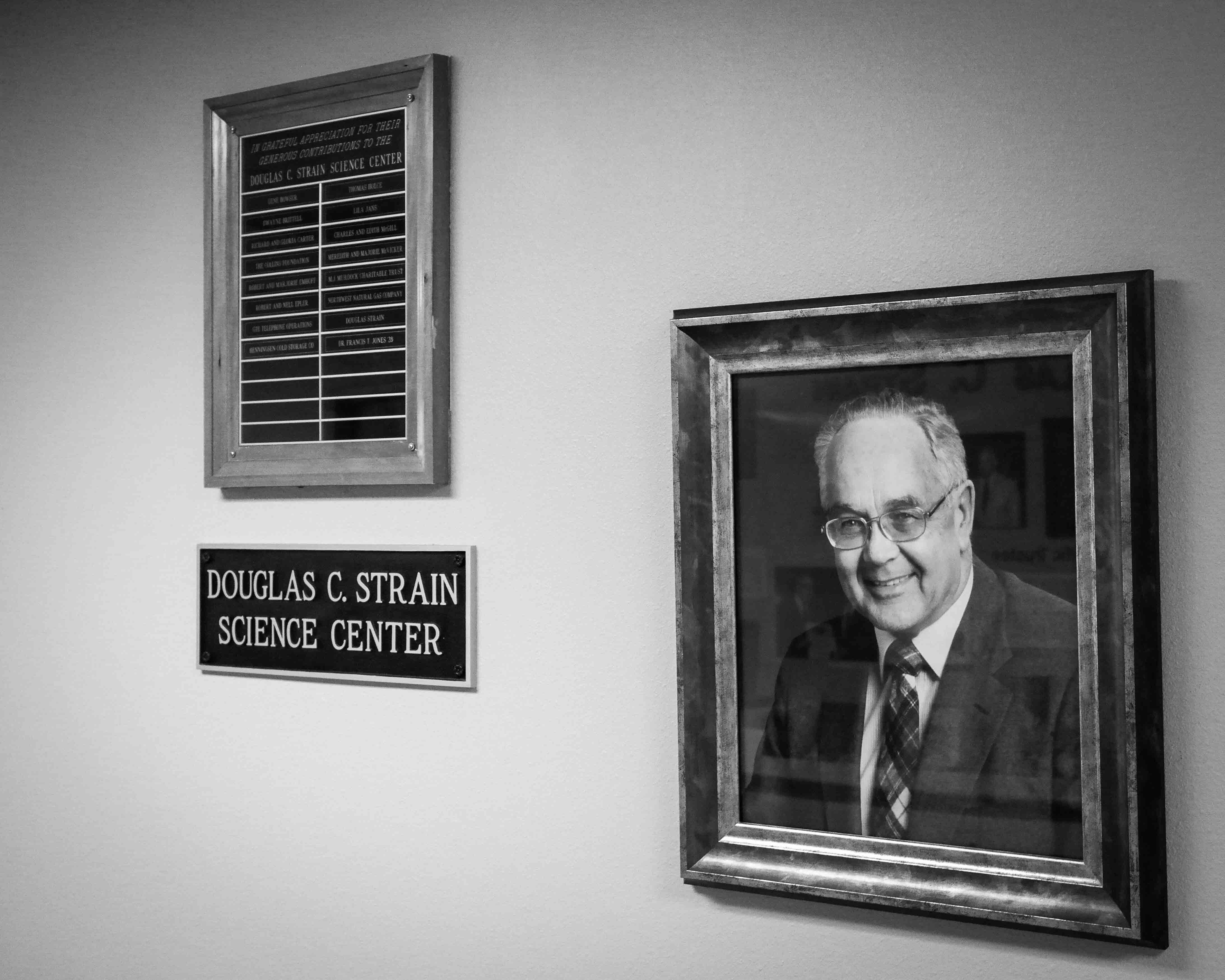 Douglas C. Strain at Pacific University in Forest Grove, Oregon